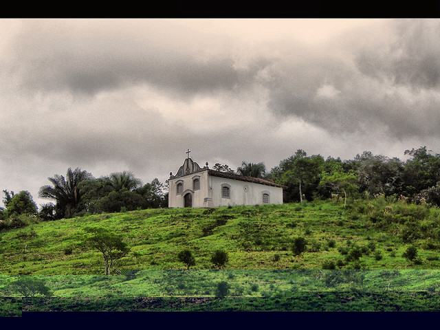 An old church in Matinhos, Paraná, Brazil.